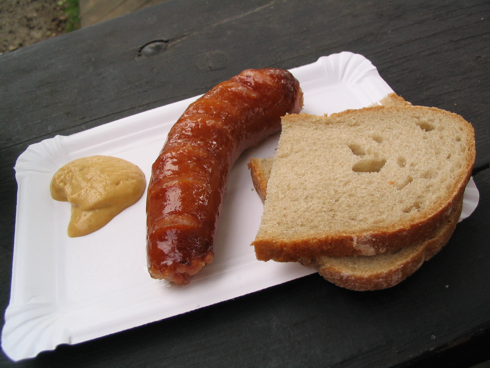 Bratwurst with bread and mustard. Brno, Czech Republic.